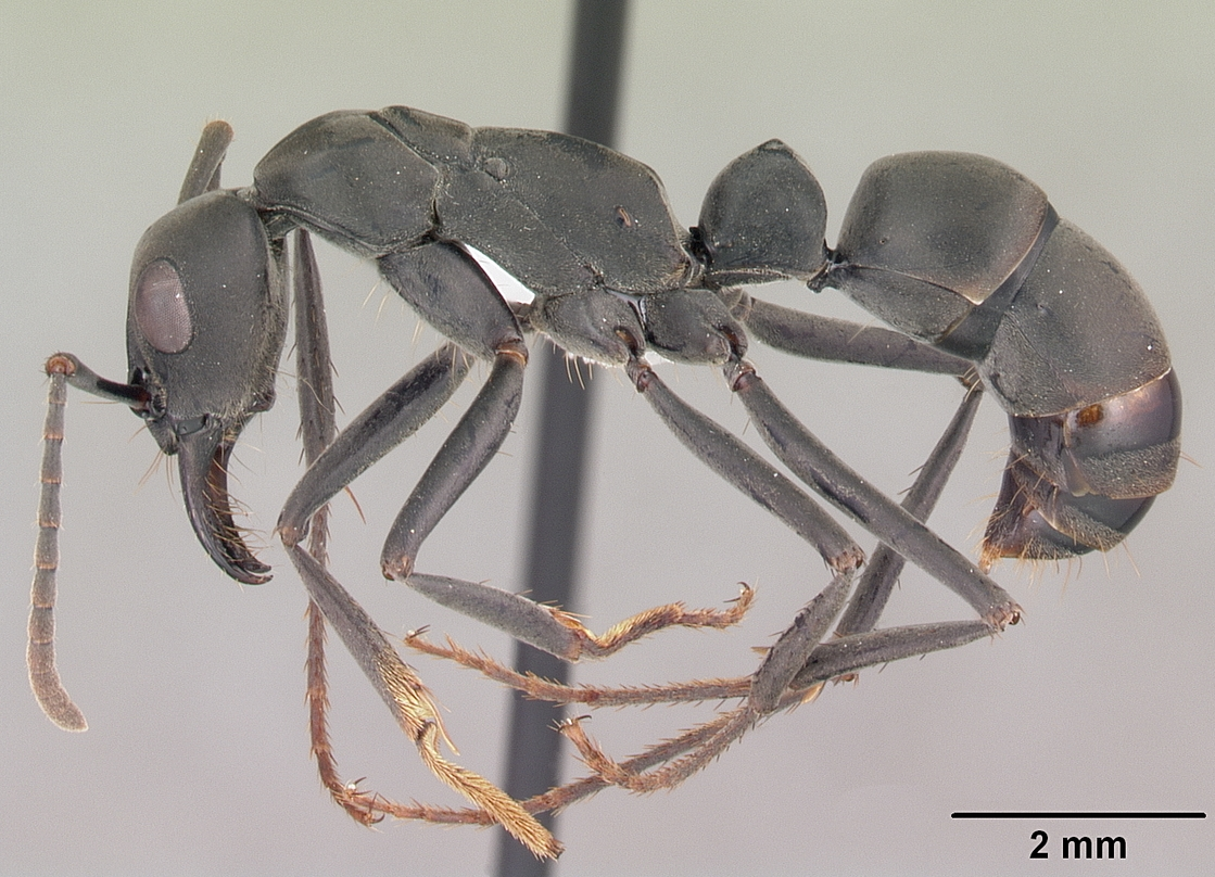 Profile view of ant Pachycondyla verenae specimen casent0103061.